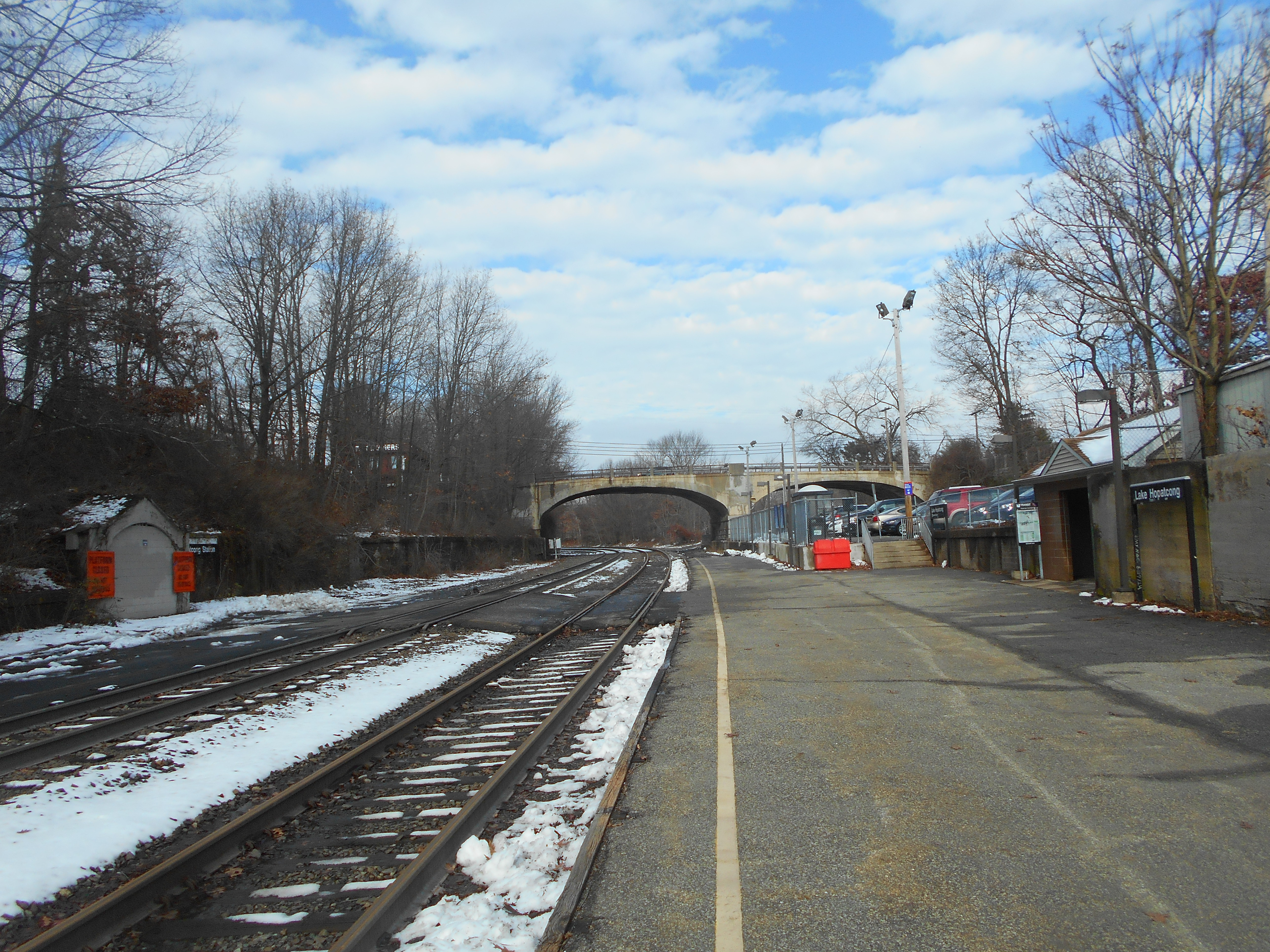 The platform at the Lake Hopatcong station for New Jersey Transit in Landing, New Jersey in December 2014.